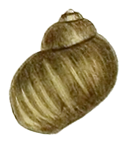 Drawing of abapertural view of the shell of Lithoglyphus naticoides